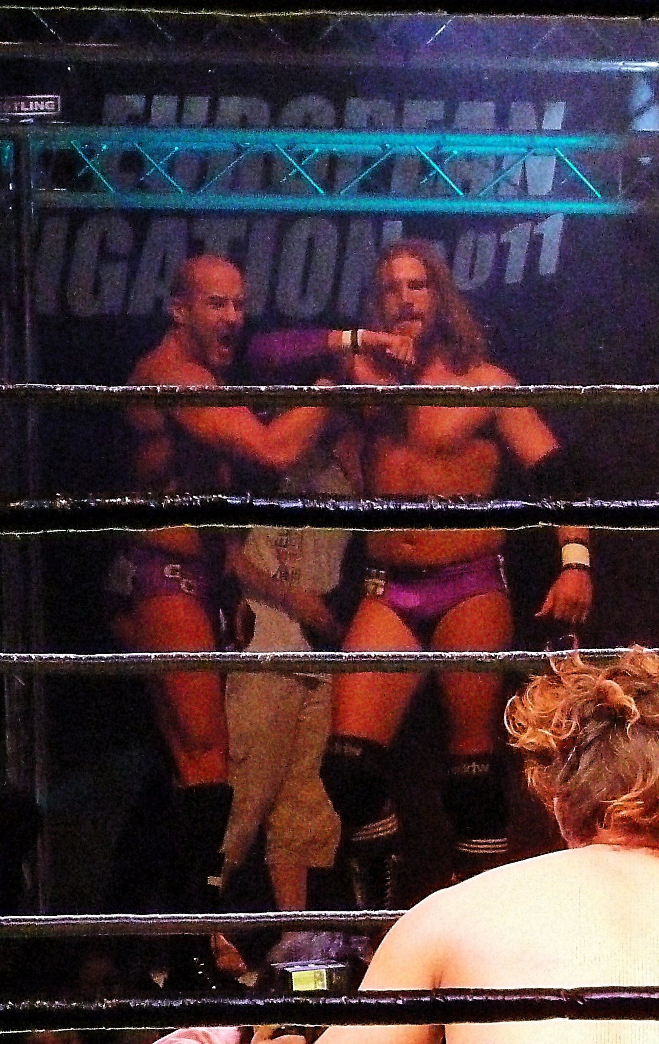 ...over Takeshi Morishima and Atsushi Aoki. Pro Wrestling NOAH European Navigation 2011, Broxbourne Civic Hall, 13 May 2011. Processed using Lo-Fi. Cropped from original.